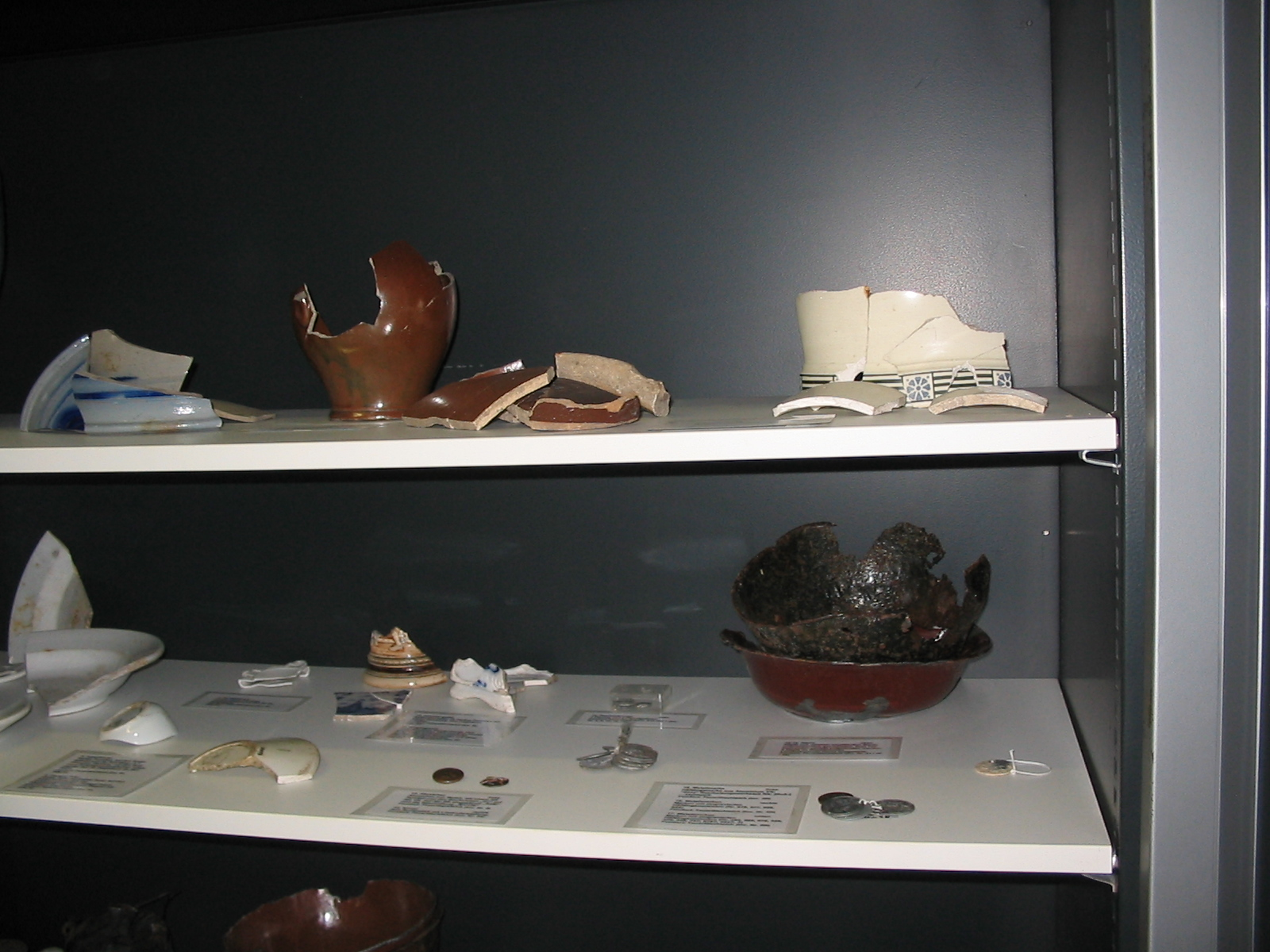 exibits of the archaeological excavations at the residual area of the Außenlager Annener Gußstahlwerk des KZ Buchenwald (Subcamp Annen Steelworks of concentration camp Buchenwald) of 1990 at Technisches Rathaus (technical town hall) in Witten